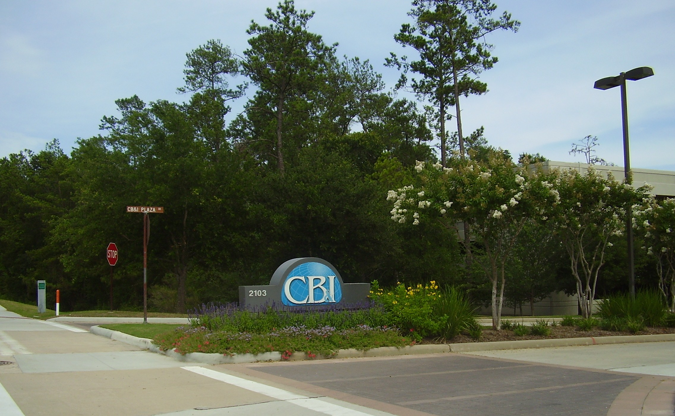 Administrative headquarters of CB&I (Chicago Bridge and Iron)